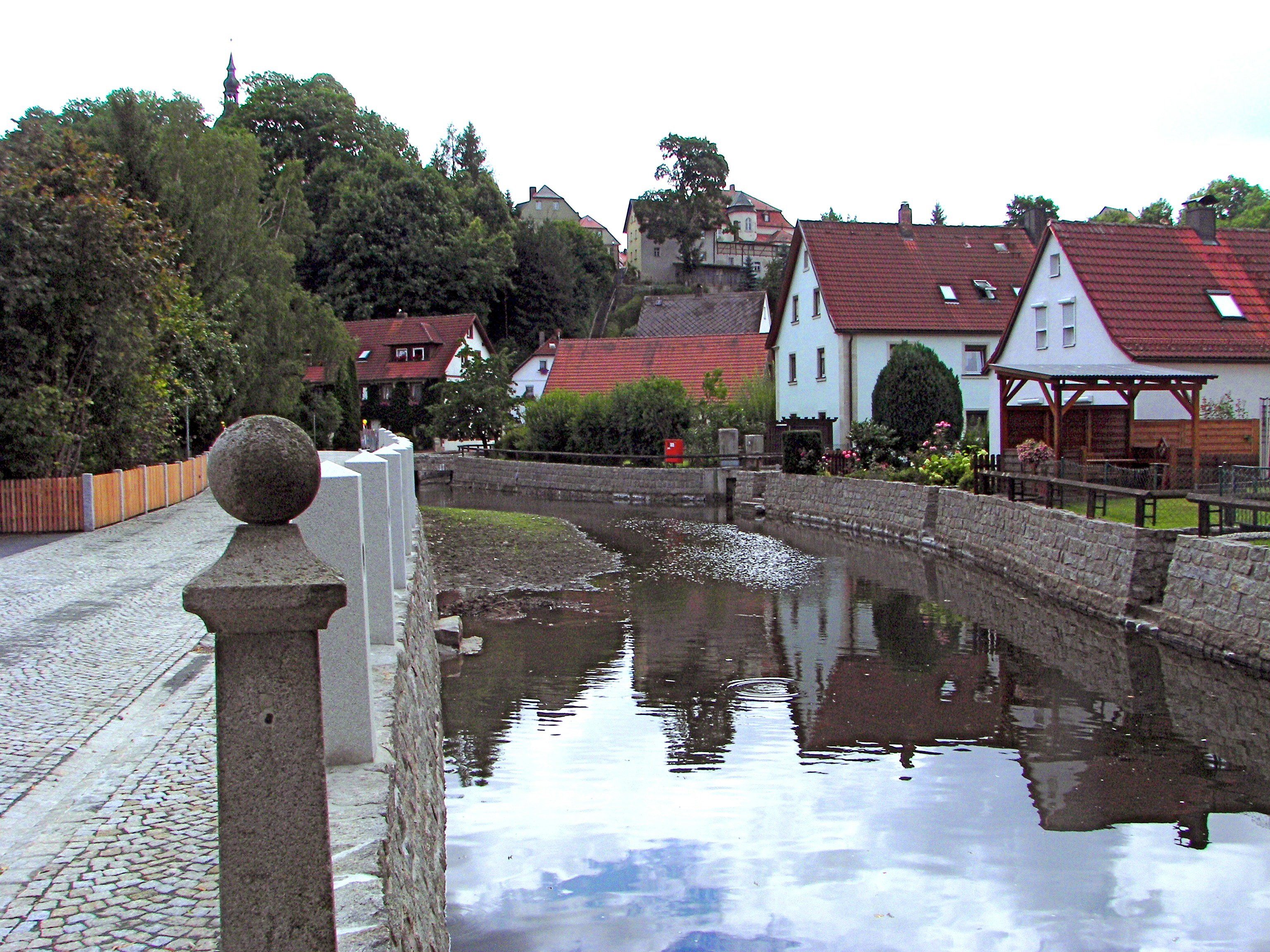 River Warme Steinach in Weidenberg